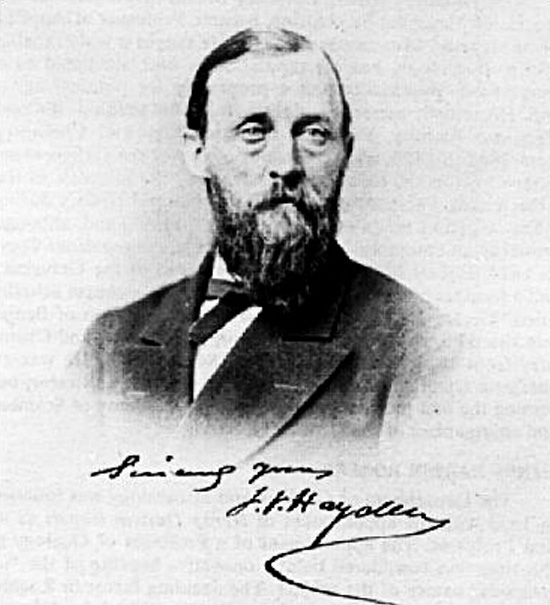 American geologist Dr. Ferdinand Vandeveer Hayden